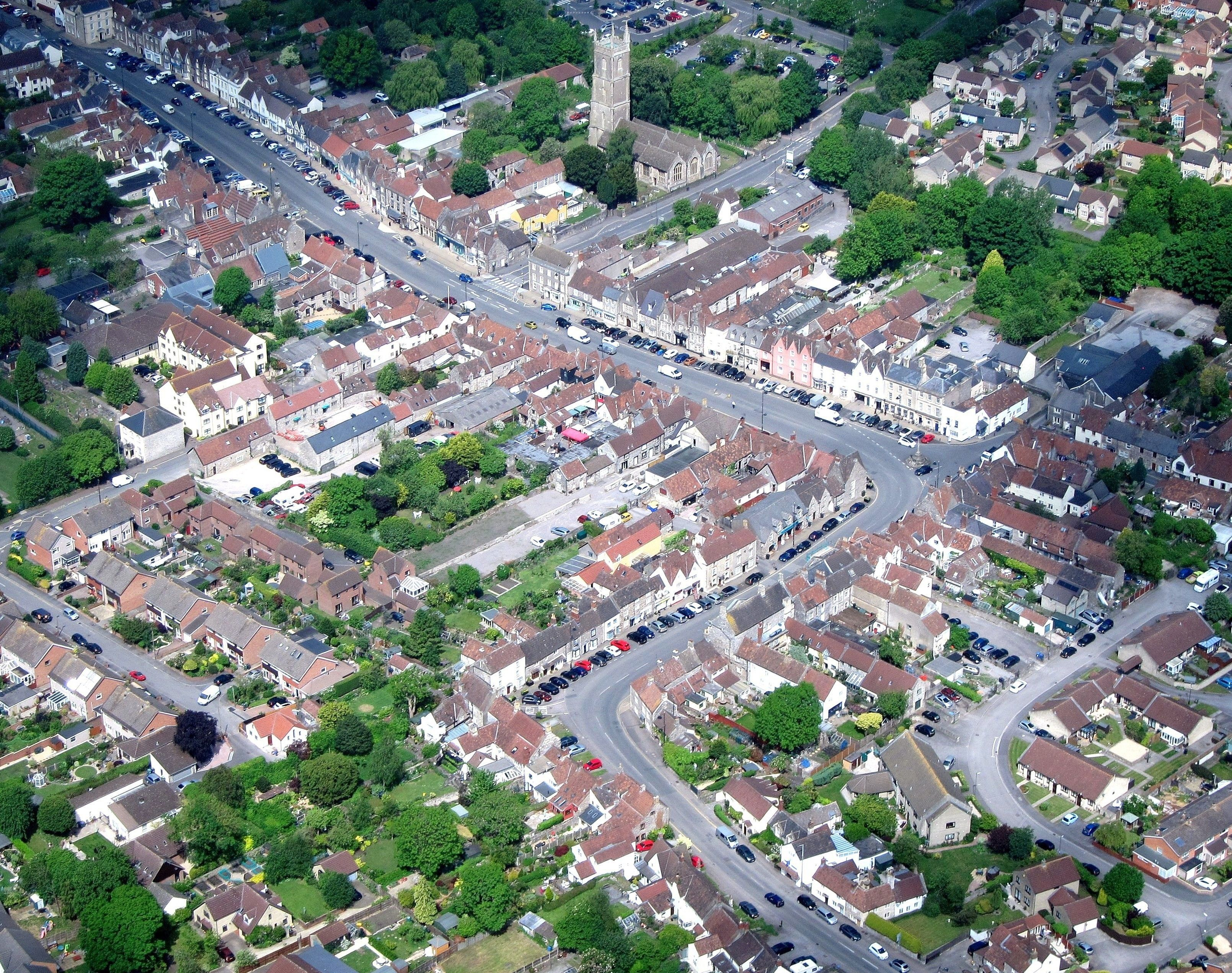 The main street of Chipping Sodbury, South Gloucestershire, England. Taken from the (open) window of a Piper Cherokee Warrior during a pleasure flight from Gloucestershire Airport, Cheltenham.